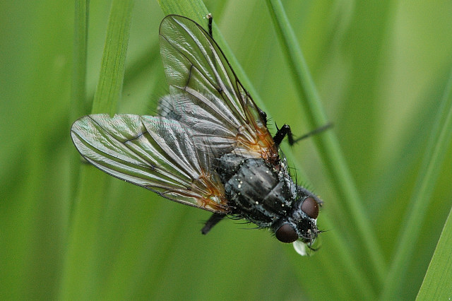 Picture taken in Commanster, Belgian High Ardennes . Species: Phaonia scutellata